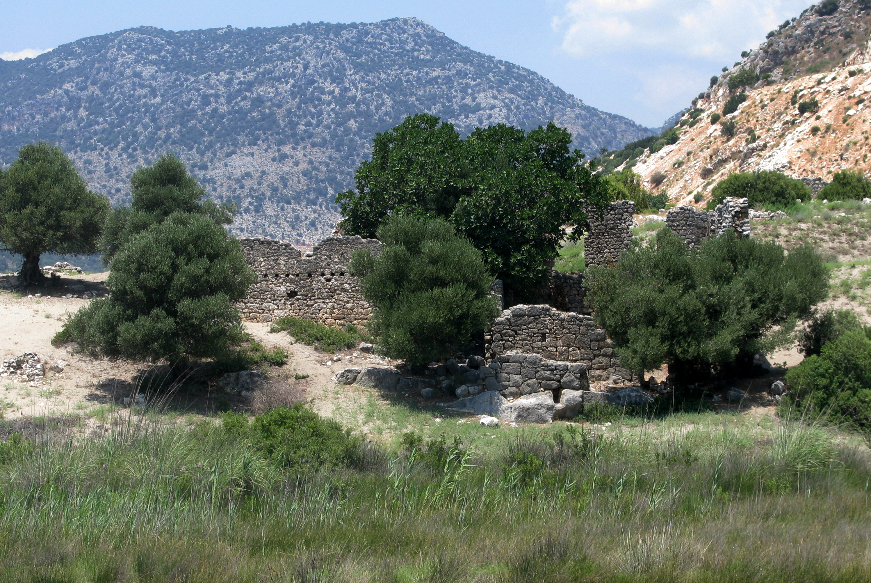 Ruins in Andriake in Myra. Probably old housings. Province of Antalya, Turkey